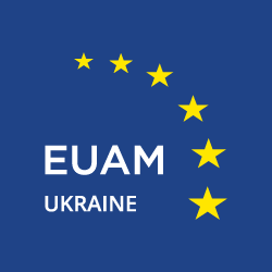 Mission logo